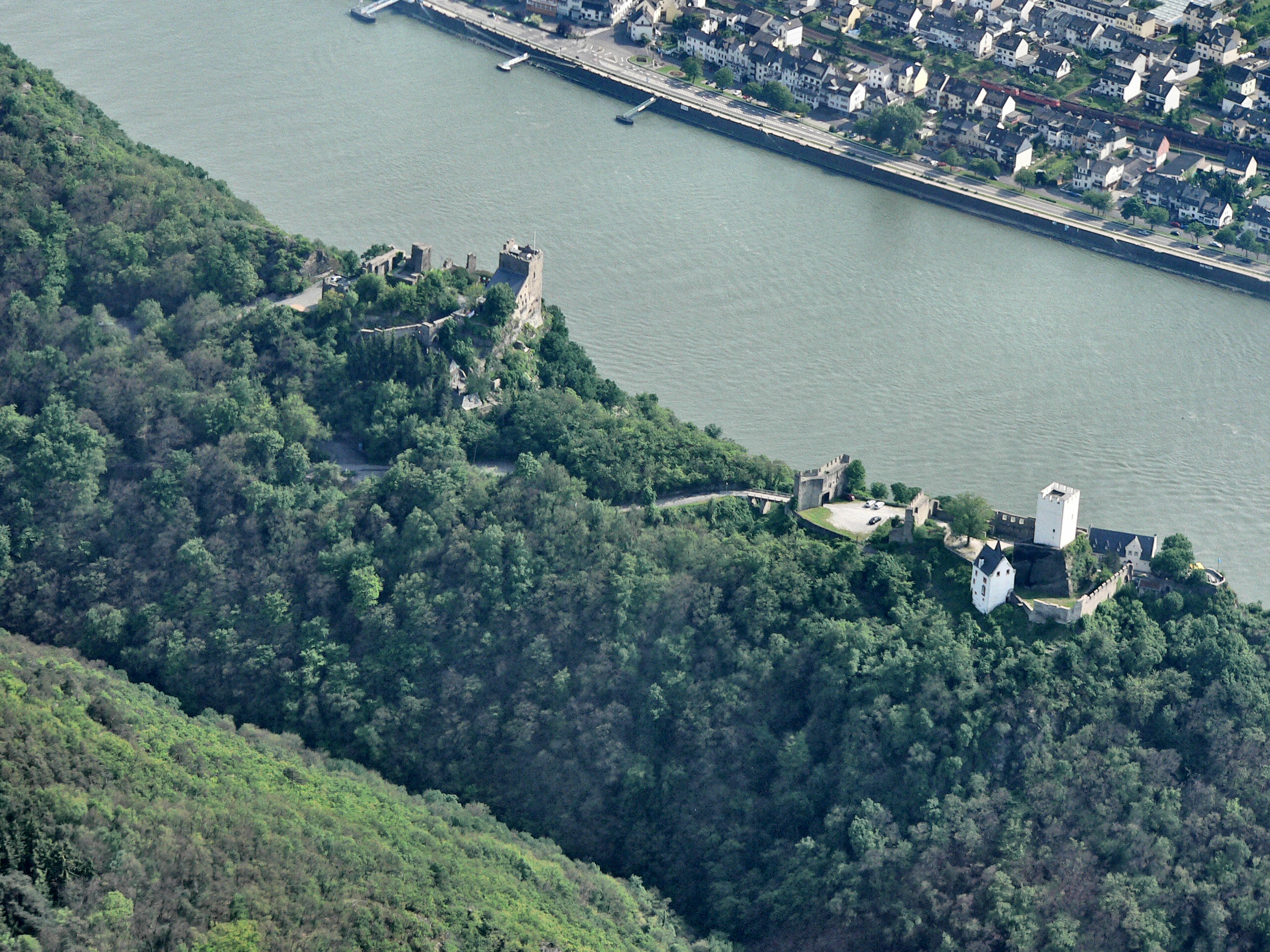 Liebenstein and Sterrenberg Castle, also known as die feindlichen Brüder